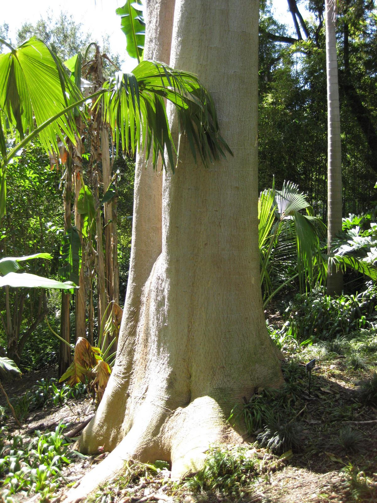 Photographed at Huntington Gardens (Los Angeles, California) in March